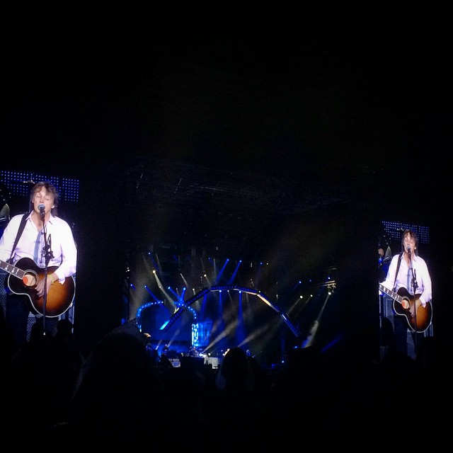 Paul McCartney. Concert at Allianz Parque, Sao Paulo, 2014.